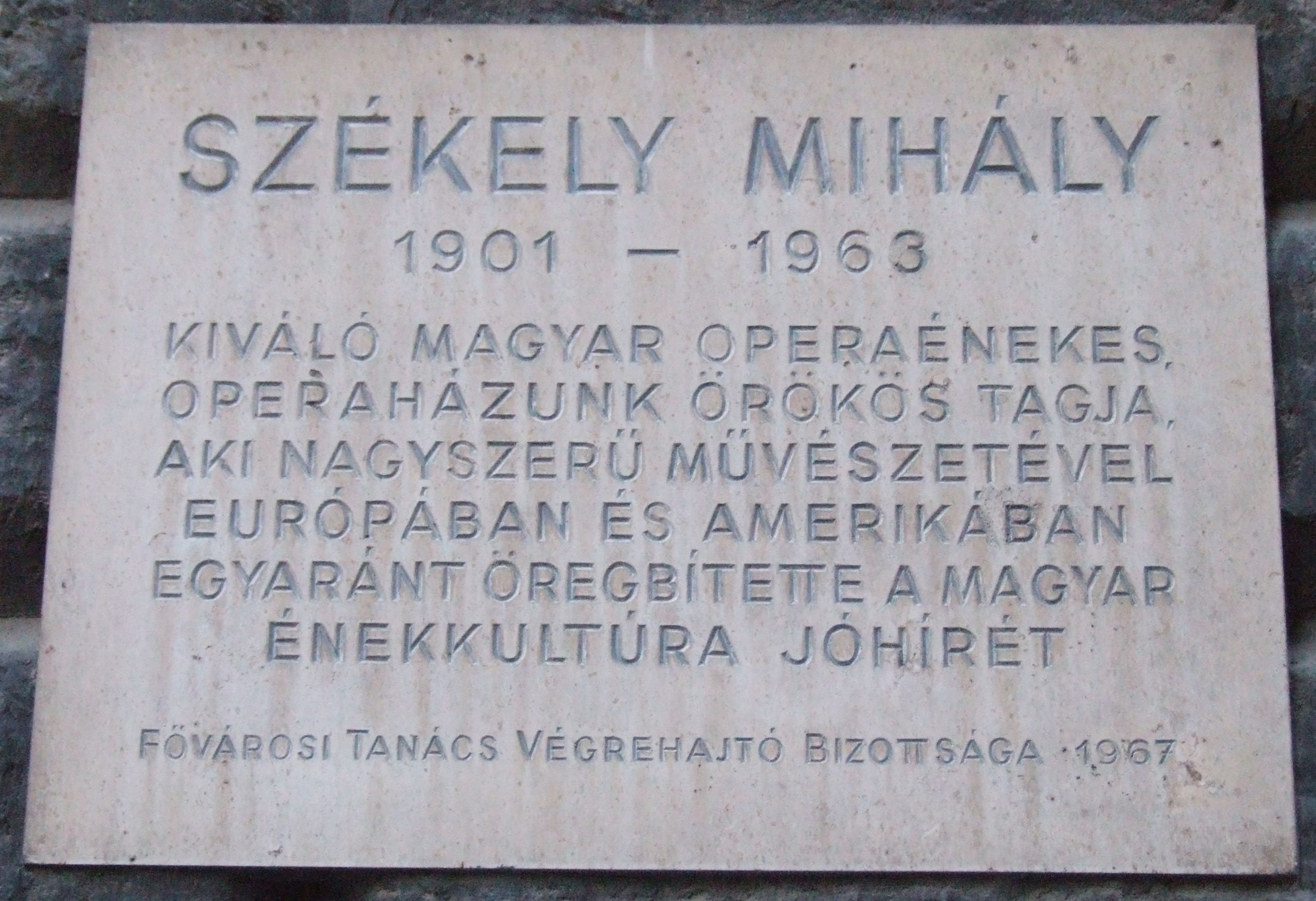 Mihály Székely (opera vocalist) commemorative plaque in Budapest District VI, Székely Mihály Street No 13.